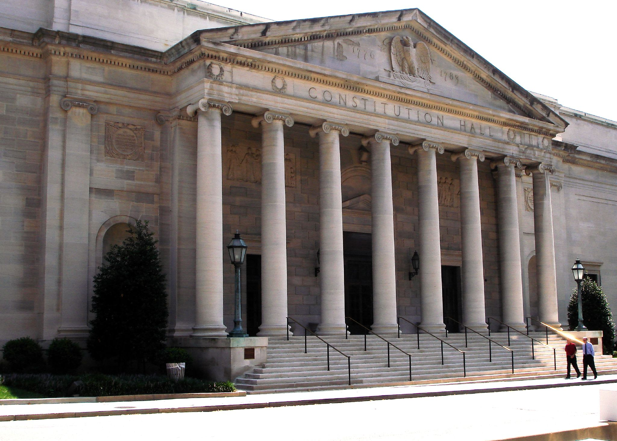 DAR Constitution Hall, located in Washington, D.C.